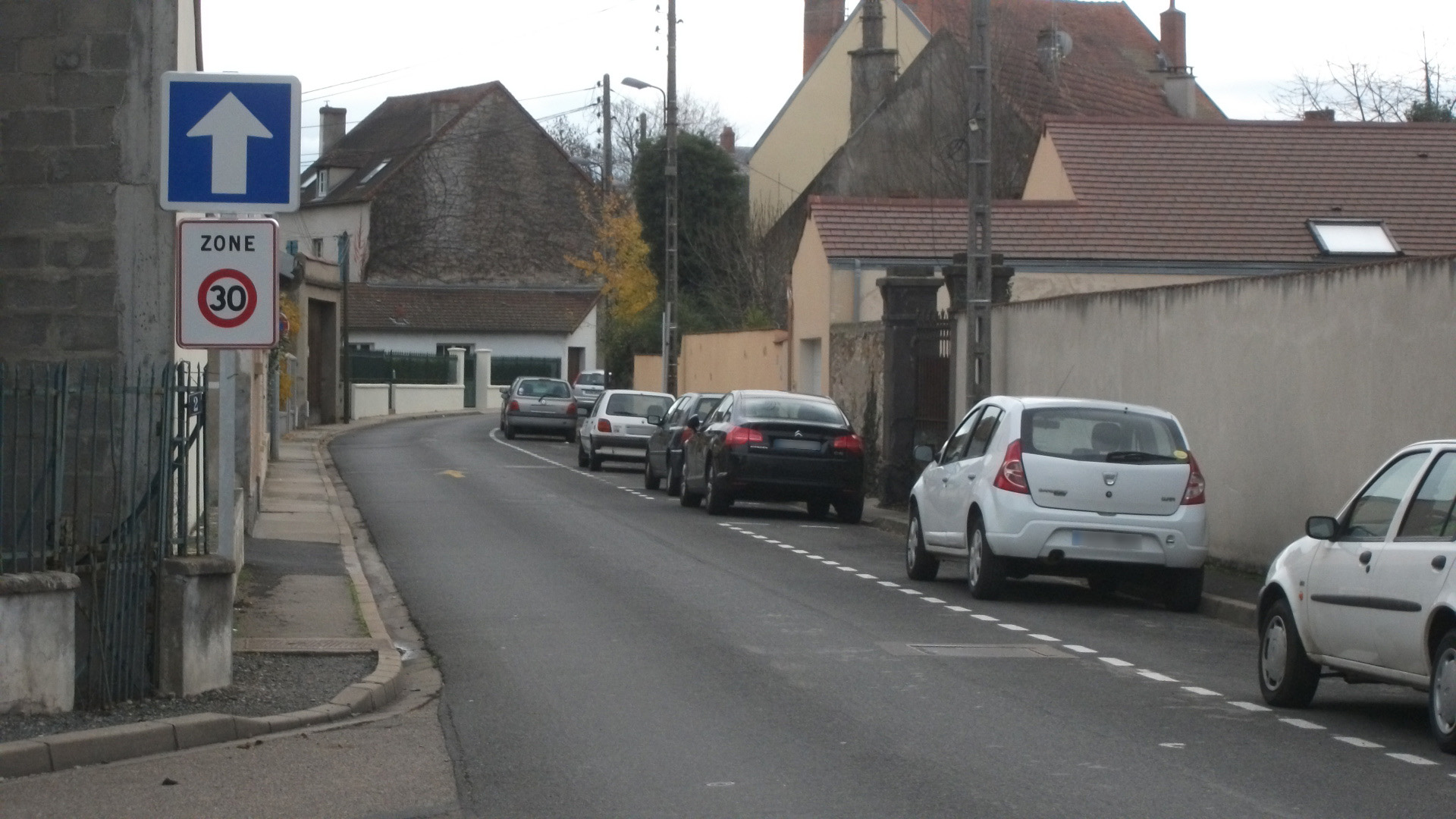 Jean-Baptiste Bru street, one way from Route de Paris to a roundabout